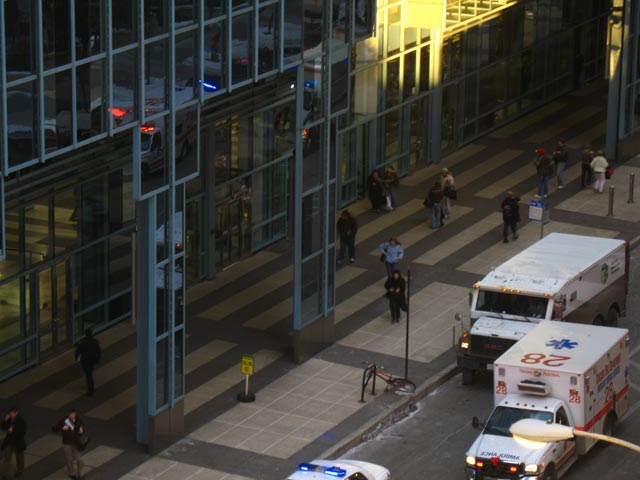 People are evacuated from the Citigroup Center when a gunman shoots employees in an office building and takes one person hostage.